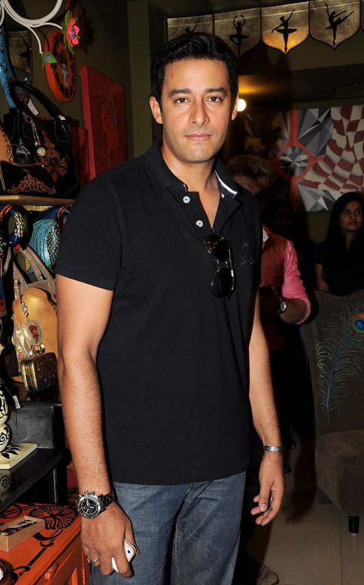 Zulfi Syed at the opening of Fluke store